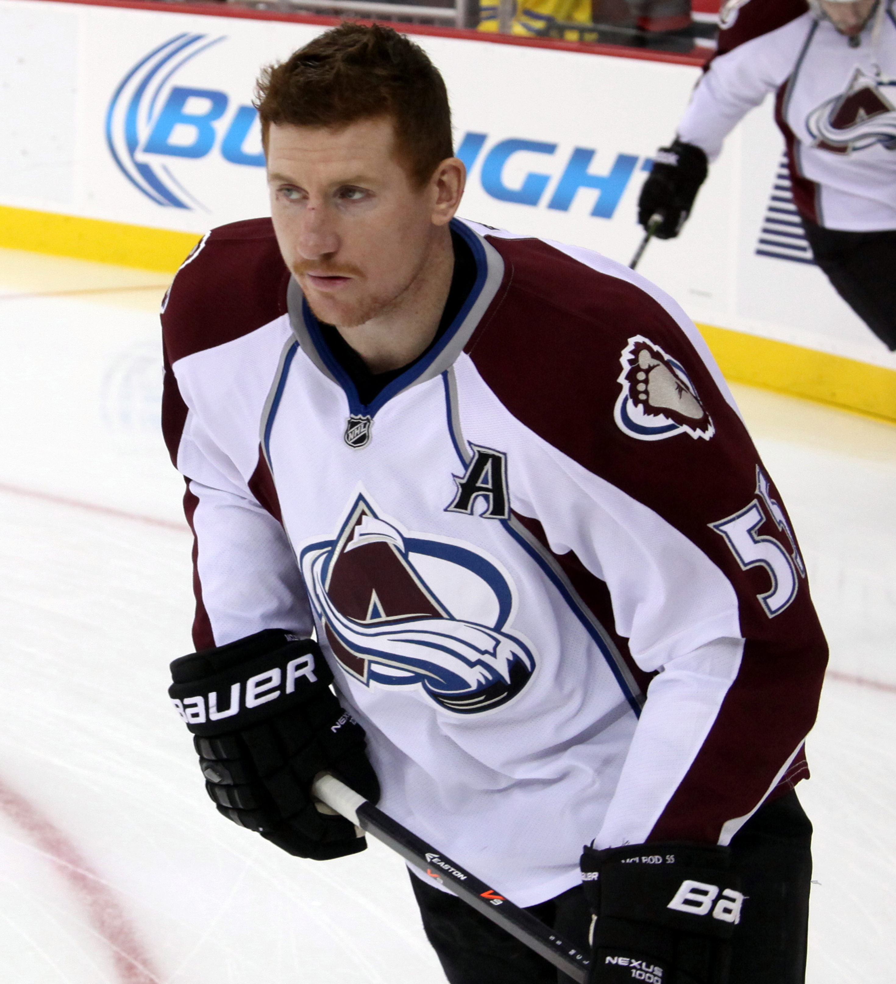 Cody McLeod in November 2014.